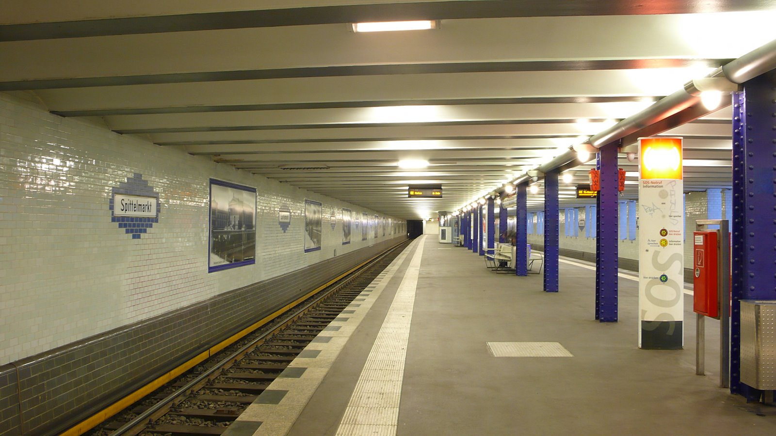 Spittelmarkt